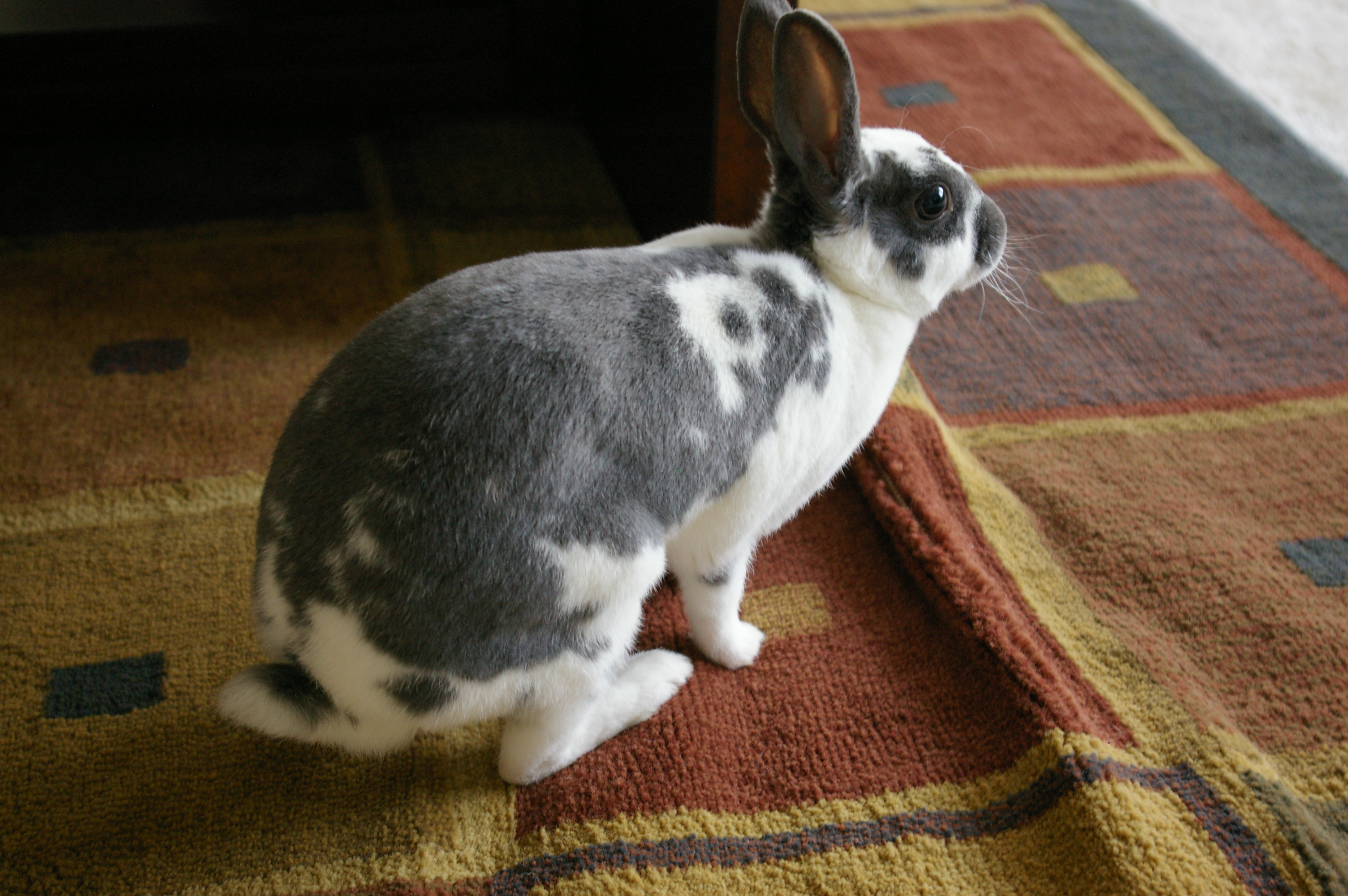 Patterned Mini Rex doe. CN